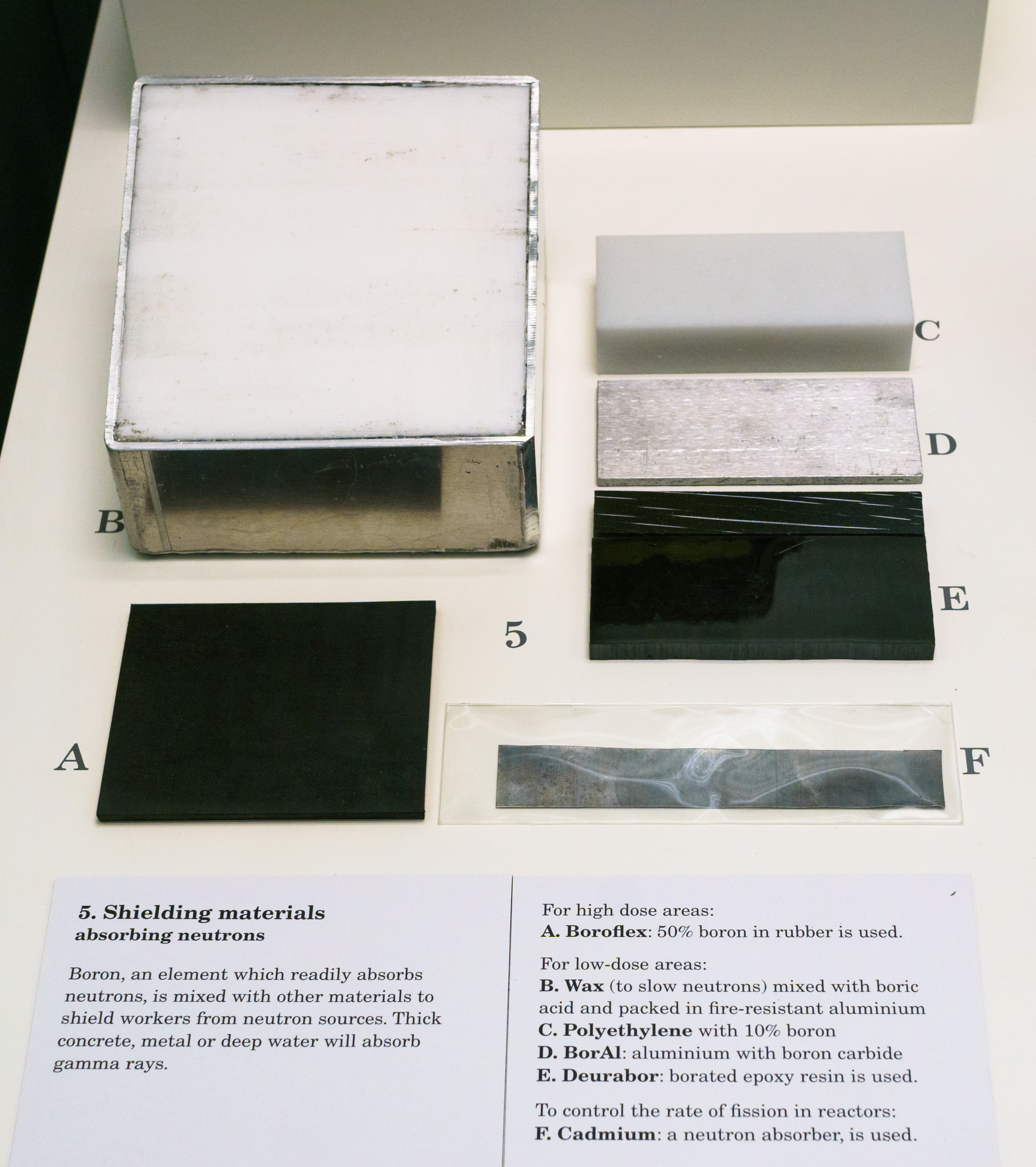 Different materials used to shield neutrons